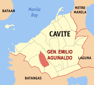 Map of Cavite showing the location of General Emilio Aguinaldo